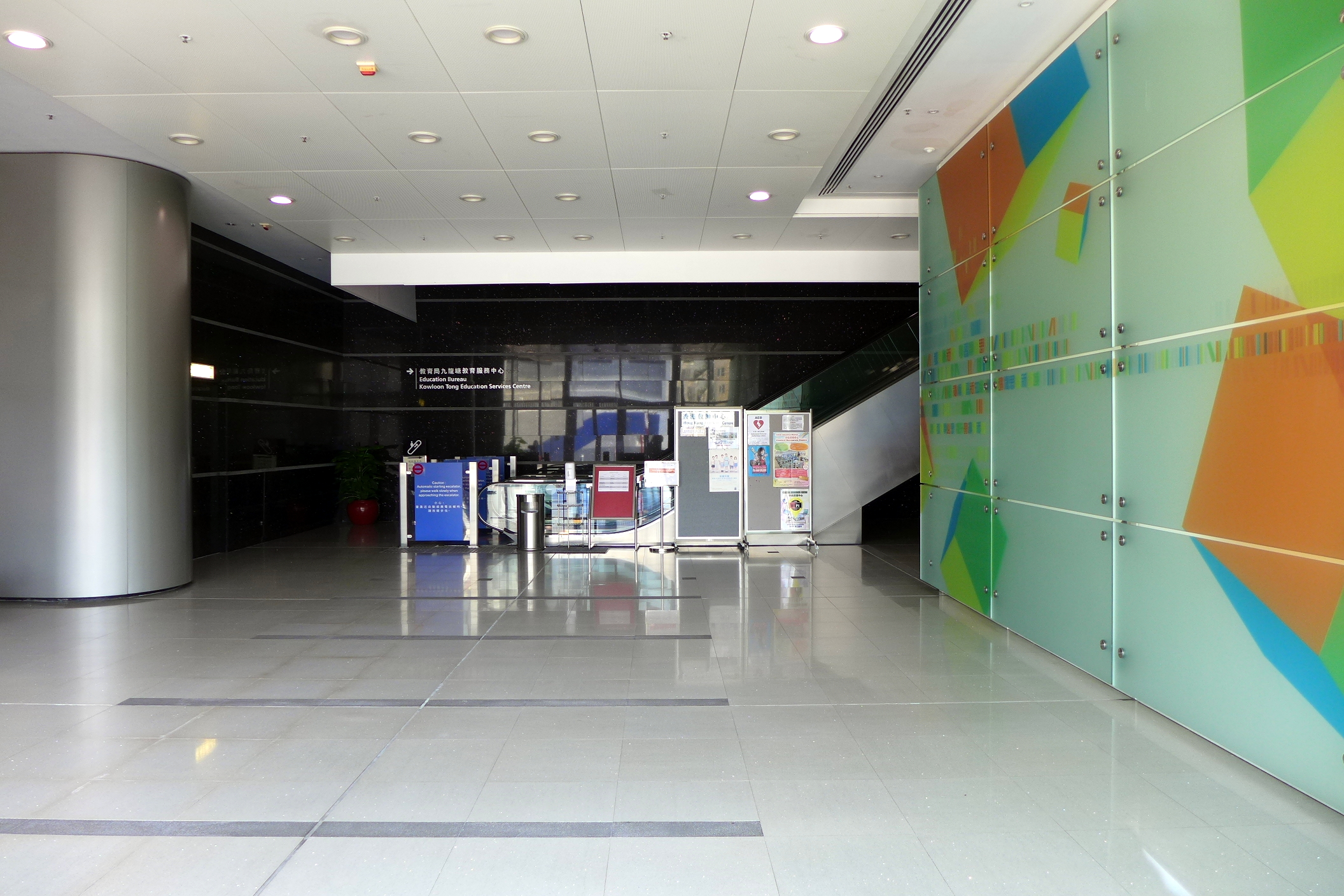 EDB Kowloon Tong Education Services Centre